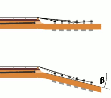 Description: schematic vertical section of electric guitar headstocks, straight and angled Source: drawing by GreyCat, based on Image:Guitar_neck.jpg made by Detlev Dördelmann; I've duplicated the neck and draw the "angled" version to show the differences. Date: created 13 Dec 2005 Author: Mikhail Yakshin (GreyCat), based on Detlev Dördelmann (Wickler) Permission: creative commons license, as in original Other versions of this file: Image:Guitar_neck.jpg - original version